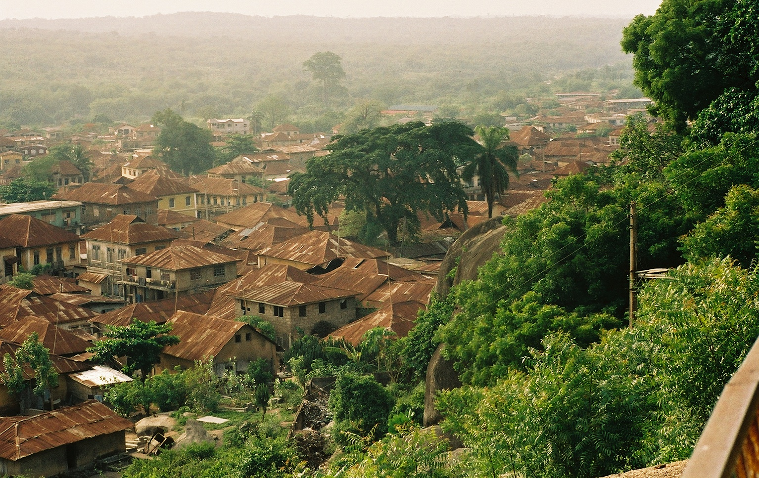 View of Abeokuta, Ogun State, Nigeria from the top of Olumo Rock